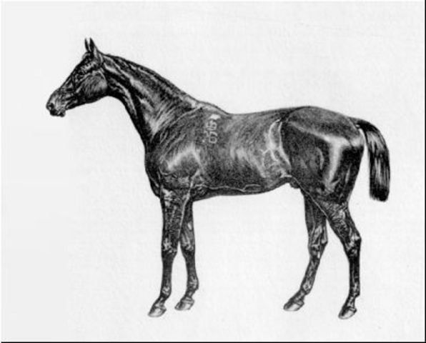 Engraving of 1876 Epsom Derby winner Kisber